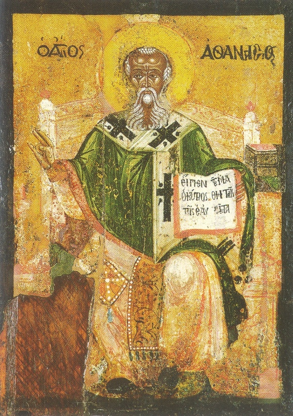 Icon of St. Athanasius of Alexandria